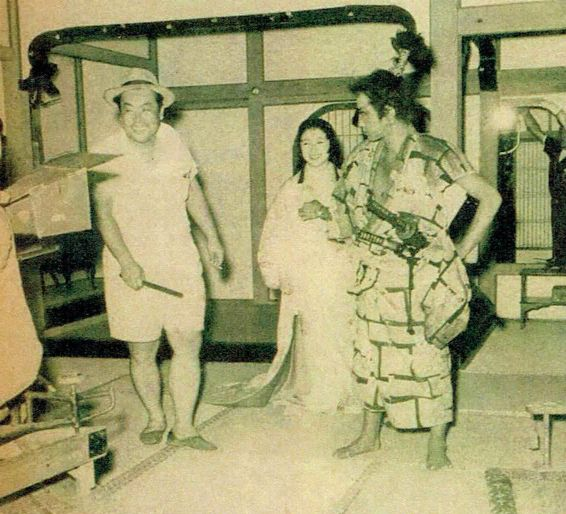 The filming site of the movie "Kougan no Wakamusha Oda Nobunaga"(1955).The people in front are from right to left, Kinnosuke Nakamura, Hizumi Takachiho, and Director Toshikazu Kouno.